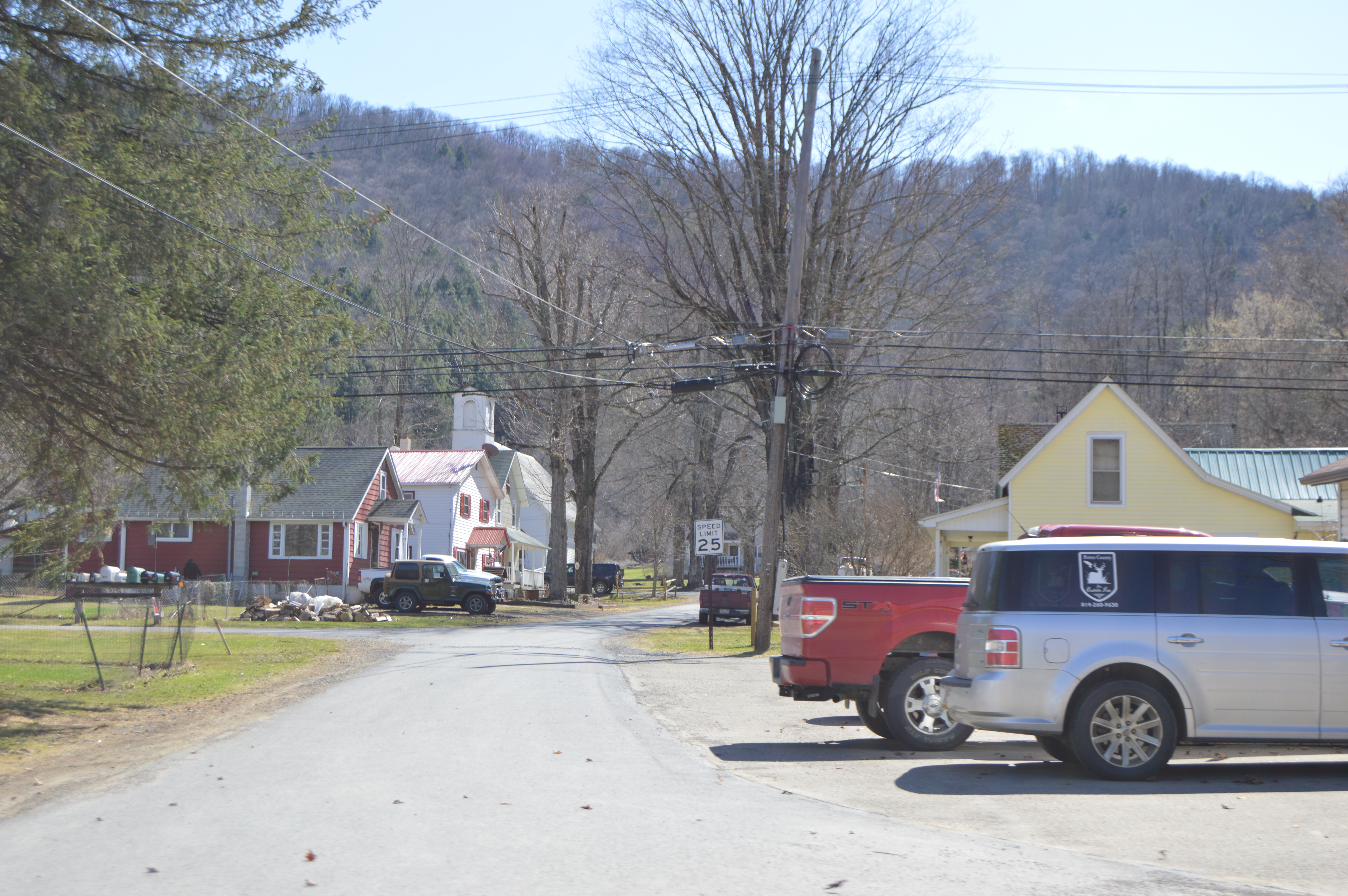 Looking south on Stiner Street in Costello, Pennsylvania, United States, from Pennsylvania Route 872.